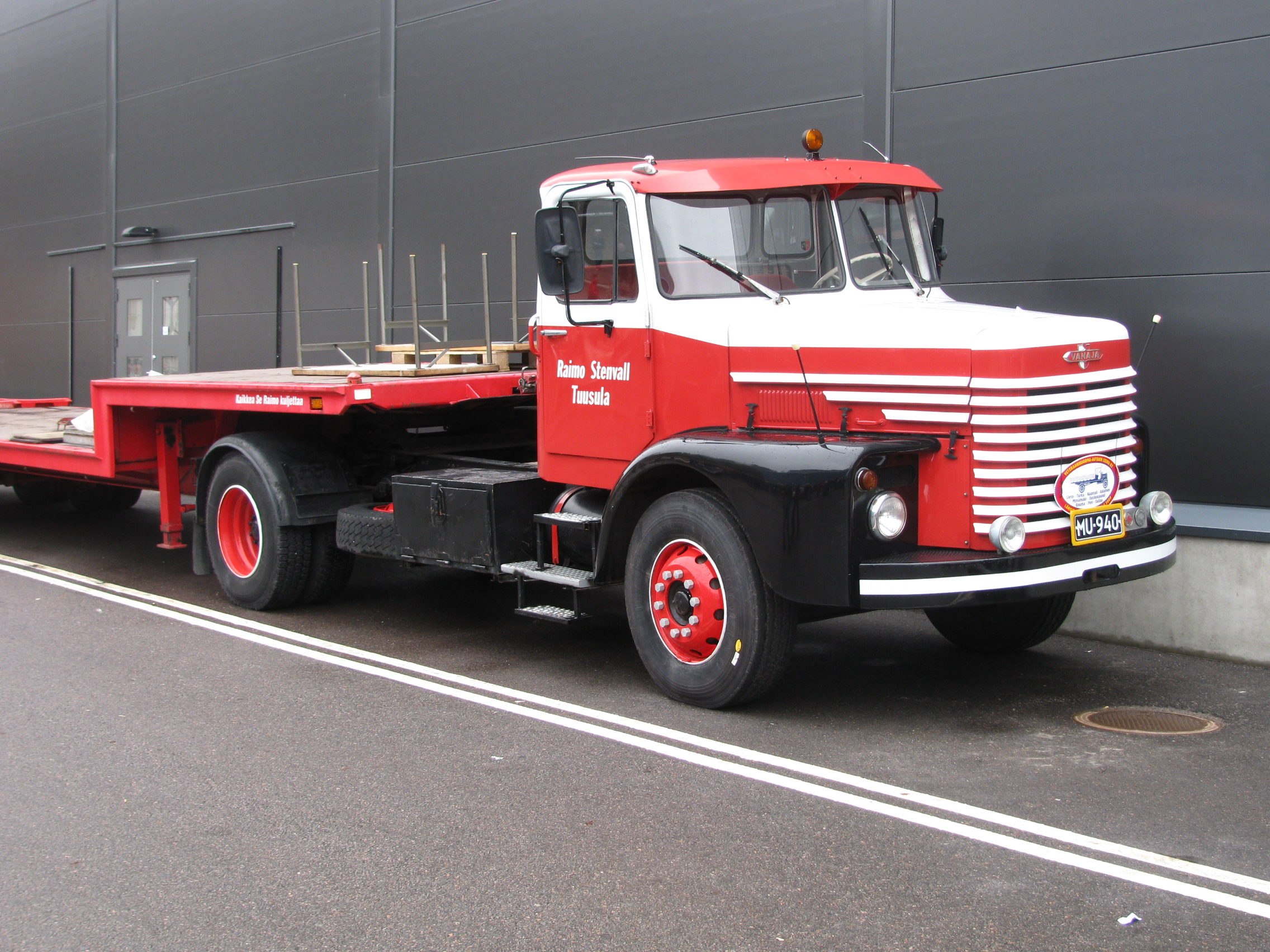 Vanaja A6-69 truck from 1968 in Classic Motor Show in Lahti, Finland.